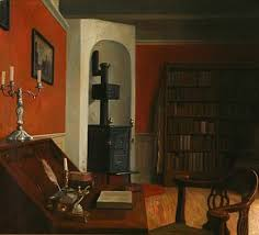 The author Ludvig Holberg's library at Tersløsegård , 1919